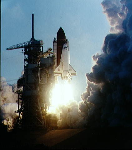 STS-39 Discovery, Orbiter Vehicle (OV) 103, lifts off from a Kennedy Space Center (KSC) Launch Complex (LC) Pad 39A at 7:33:14 am (Eastern Daylight Time (EDT)). OV-103 atop the external tank (ET) and flanked by its two solid rocket boosters (SRBs) is partially obscured by the retracted rotating service structure (RSS) in the foreground as it leaves the mobile launcher platform and before it clears the launch tower fixed service structure (FSS). An exhaust cloud created by the SRB and space shuttle main engine (SSME) firings fills the launch pad area.